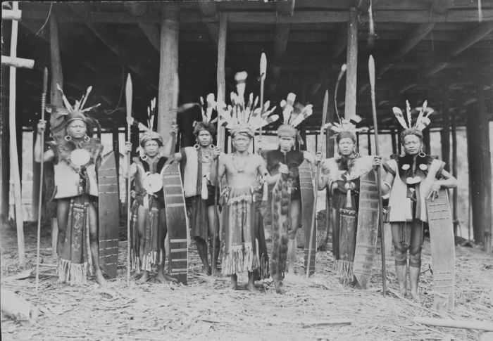 A Bahau-Dayak chief with his suite in warrior-dress, Central-Borneo.